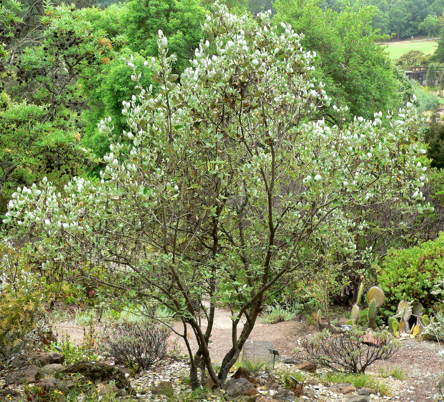 Photo of Garrya veatchii at the Regional Parks Botanic Garden